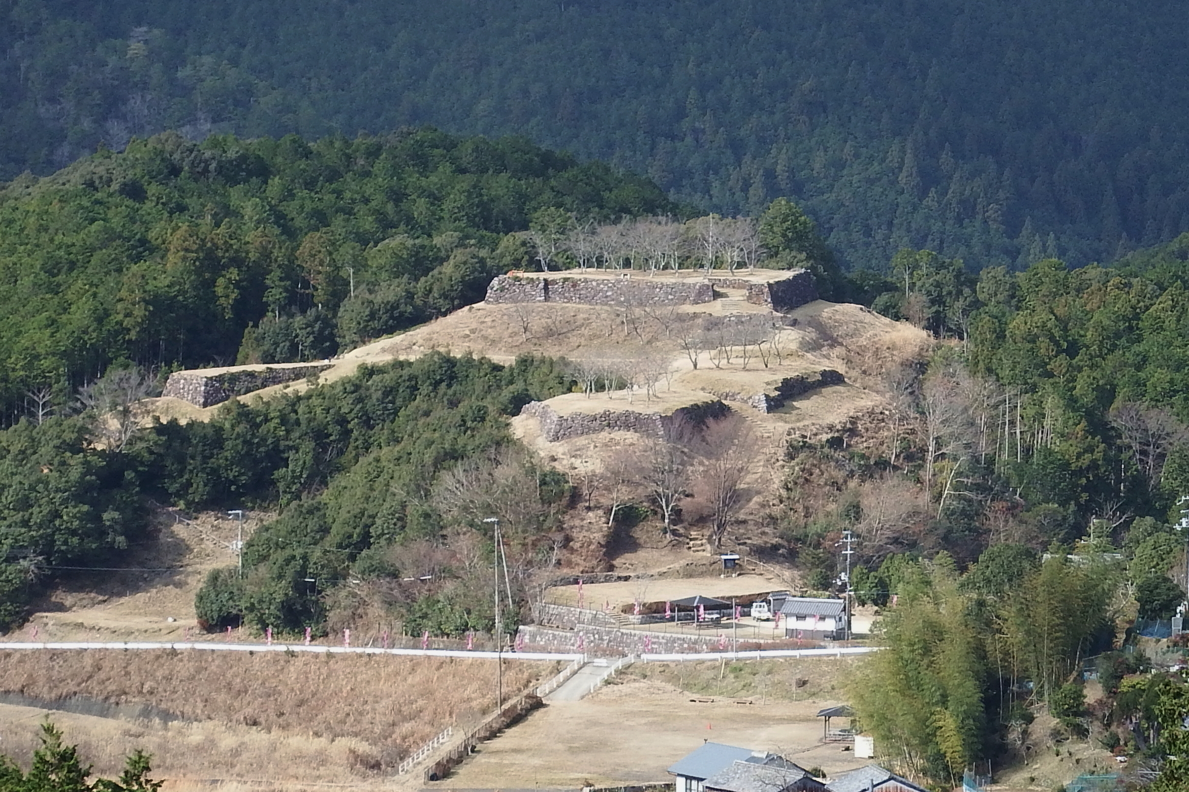 Distant View of Akagi Castle